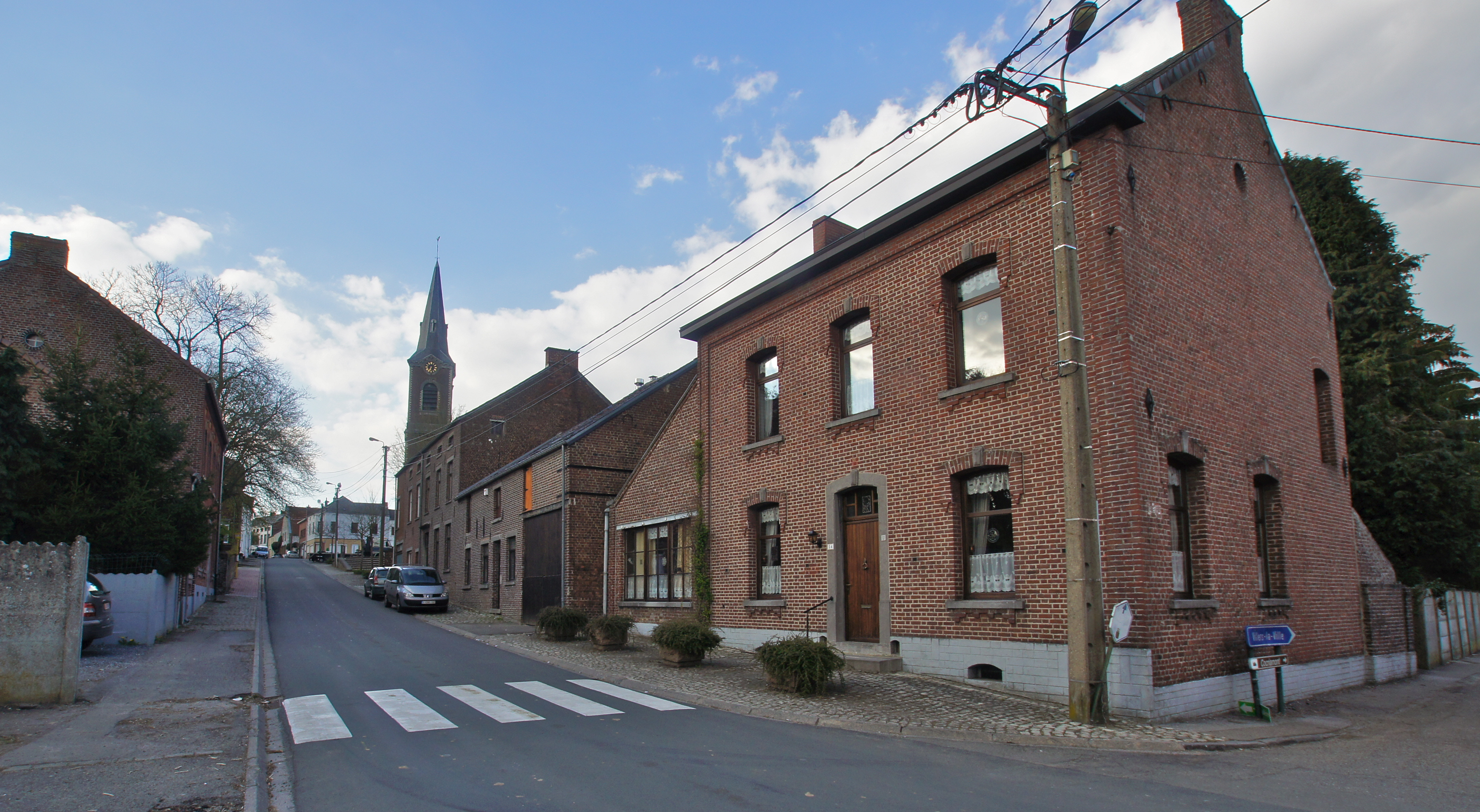 Villers-la-Ville (Sart-Dames-Avelines), Belgium: Panorama